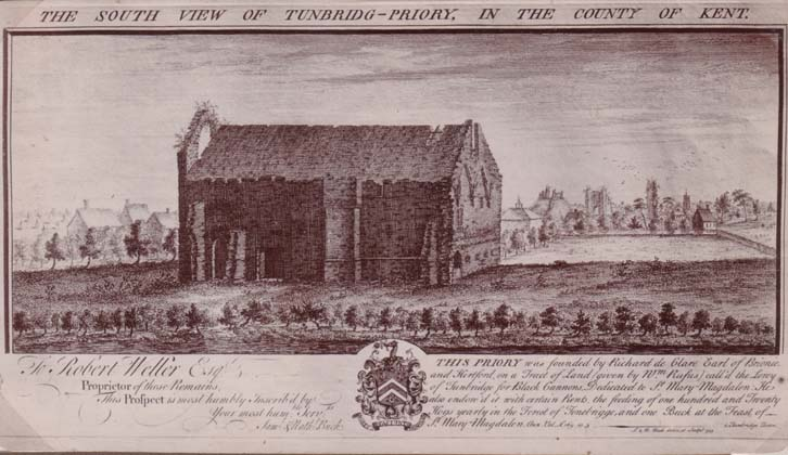 View of Tonbridge Priory in 1735